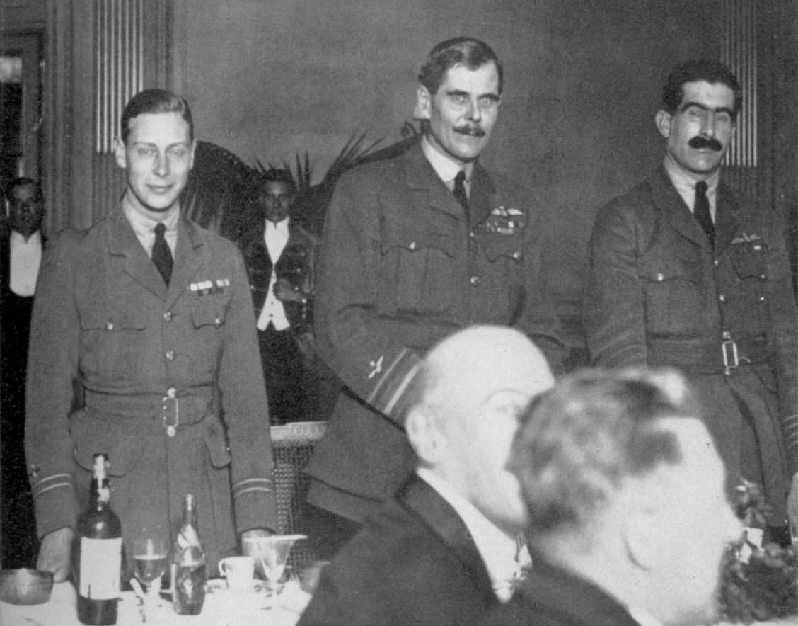 The Independent Air Force Dinner on 14 July 1919 at the Savoy Hotel, London. Left to right are: HRH Prince Albert, Major-General Sir Hugh Trenchard, Colonel C L Courtney. Maurice Baring is shown seated in the front.